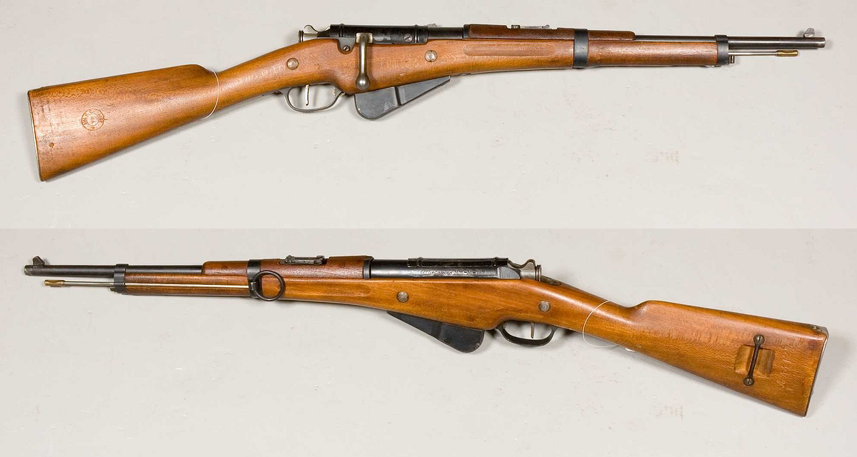 Berthier M1916 Carbine with 5-round magazine